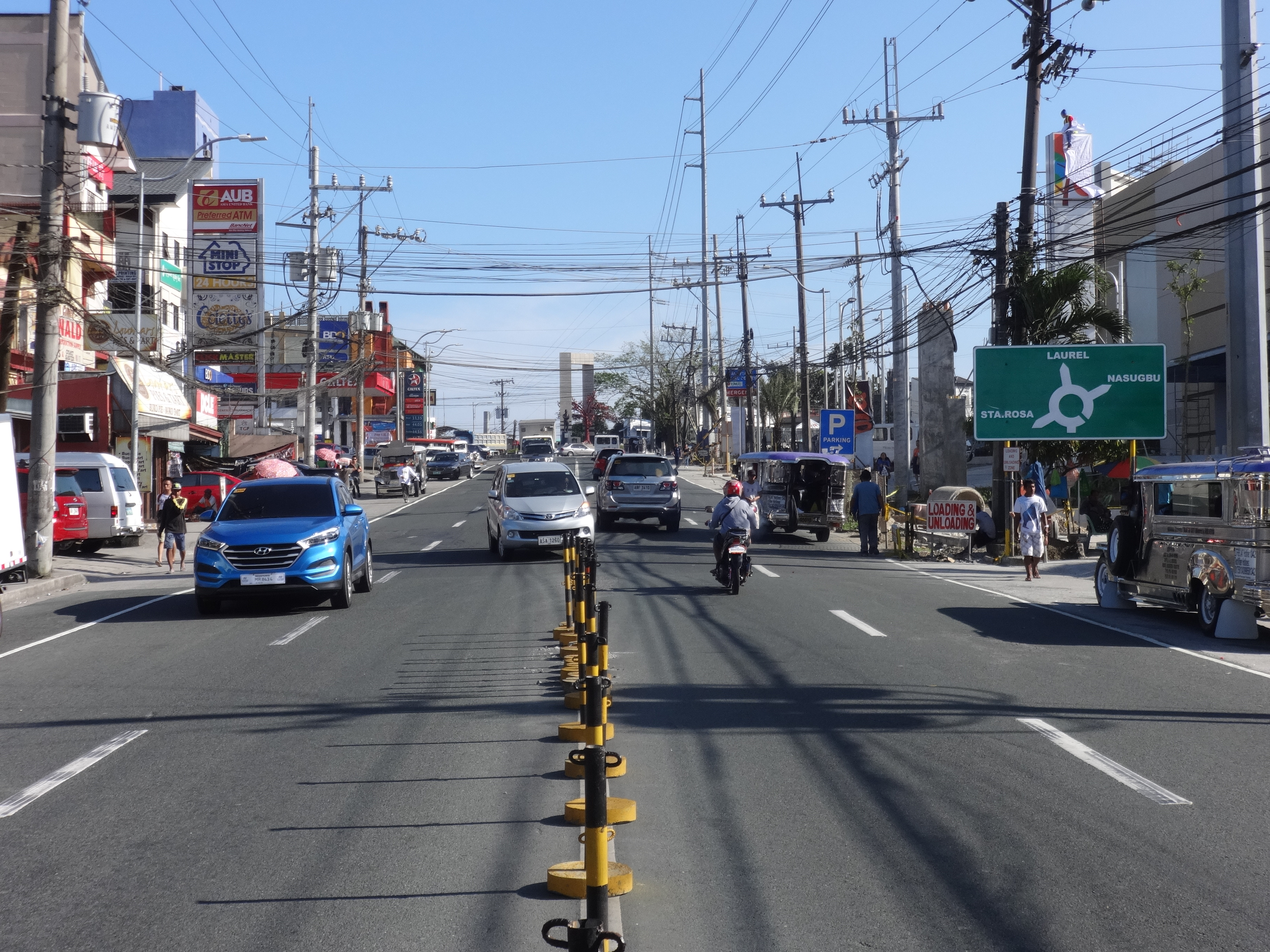 Part of Aguinaldo Highway (Metrro Manila Radial Road 2) in Tagaytay City, Cavite.